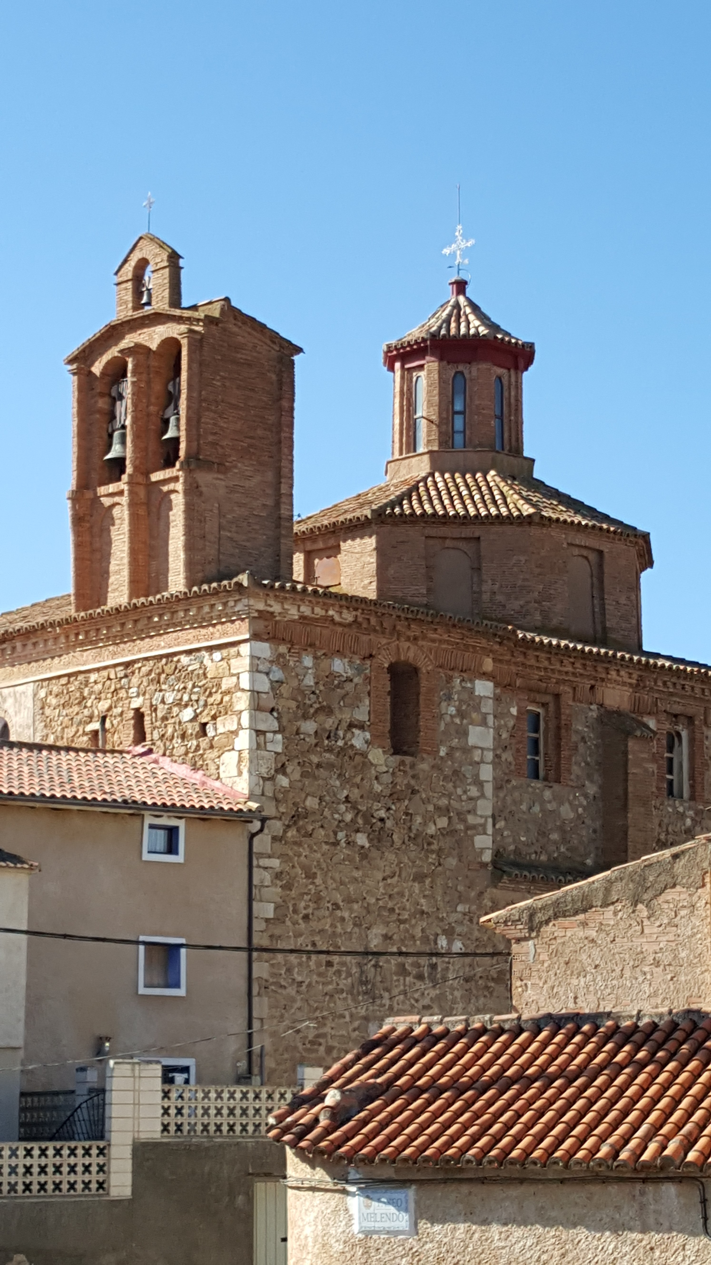 Villanueva de Jiloca, Zaragoza, Spain